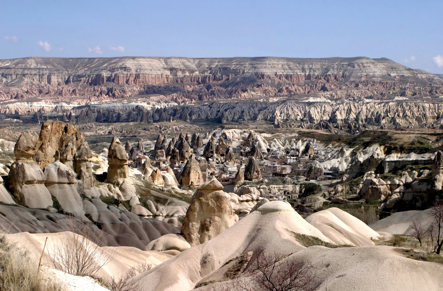 Cappadocia, a region in central Turkey, is known for its Göreme National Park, which was added to the UNESCO World Heritage List in 1985.The first period of settlement within the region reaches to Roman period of Christian era. The area is also famous for its fairy chimneys rock formations, some of which reach 40 meters (130 feet) in height. Over thousands of years, wind and rain eroded layers of consolidated volcanic ash, or tuff, to form the sweeping landscape. From the 4th to 13th century AD, occupants of the area dug tunnels into the exposed rock face to build residences, stores, and churches which are home to irreplaceable Byzantine art. More than 500,000 tourists visit the region each year.